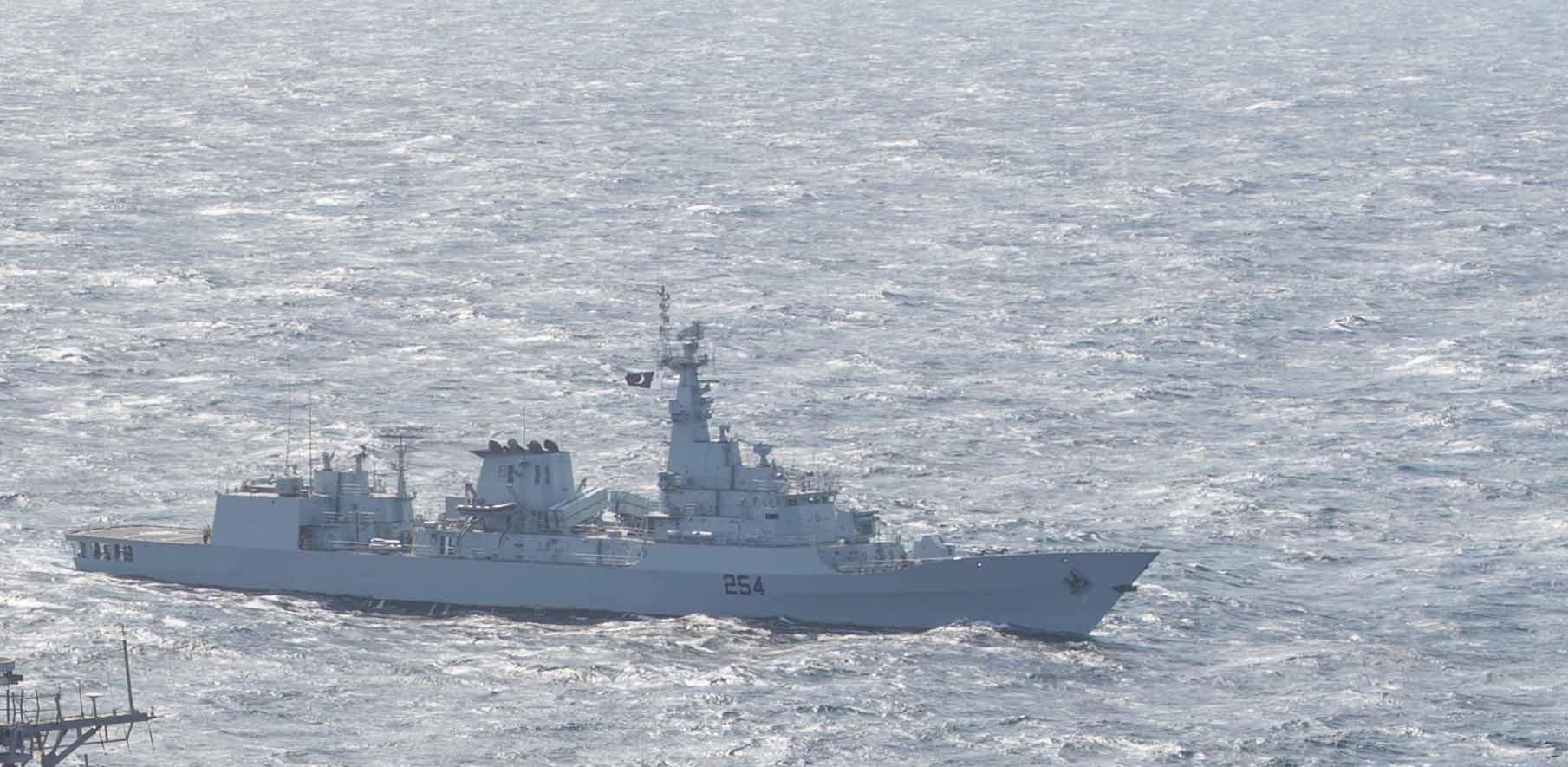 U.S. FIFTH FLEET AREA OF RESPONSIBILITY (Nov. 5, 2014) The Arleigh Burke-class guided-missile destroyer USS Mitscher (DDG 57) steams alongside Pakistan Navy Ship Aslat (FFG 254). Mitscher is participating in the International Mine Countermeasures Exercise (IMCMEX). With a quarter of the world's navies participating including 6,500 Sailors from every region, IMCMEX is the largest international naval exercise promoting maritime security and the free-flow of trade through mine countermeasure operations, maritime security operations, and maritime infrastructure protection in the U.S. 5th Fleet area of responsibility and throughout the world. (U.S. Navy Photo by Mass Communication Specialist 1st Class Patrick W. Mullen III/Released)